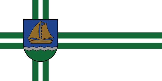 Flag of Ventspils Municipality, Latvia.